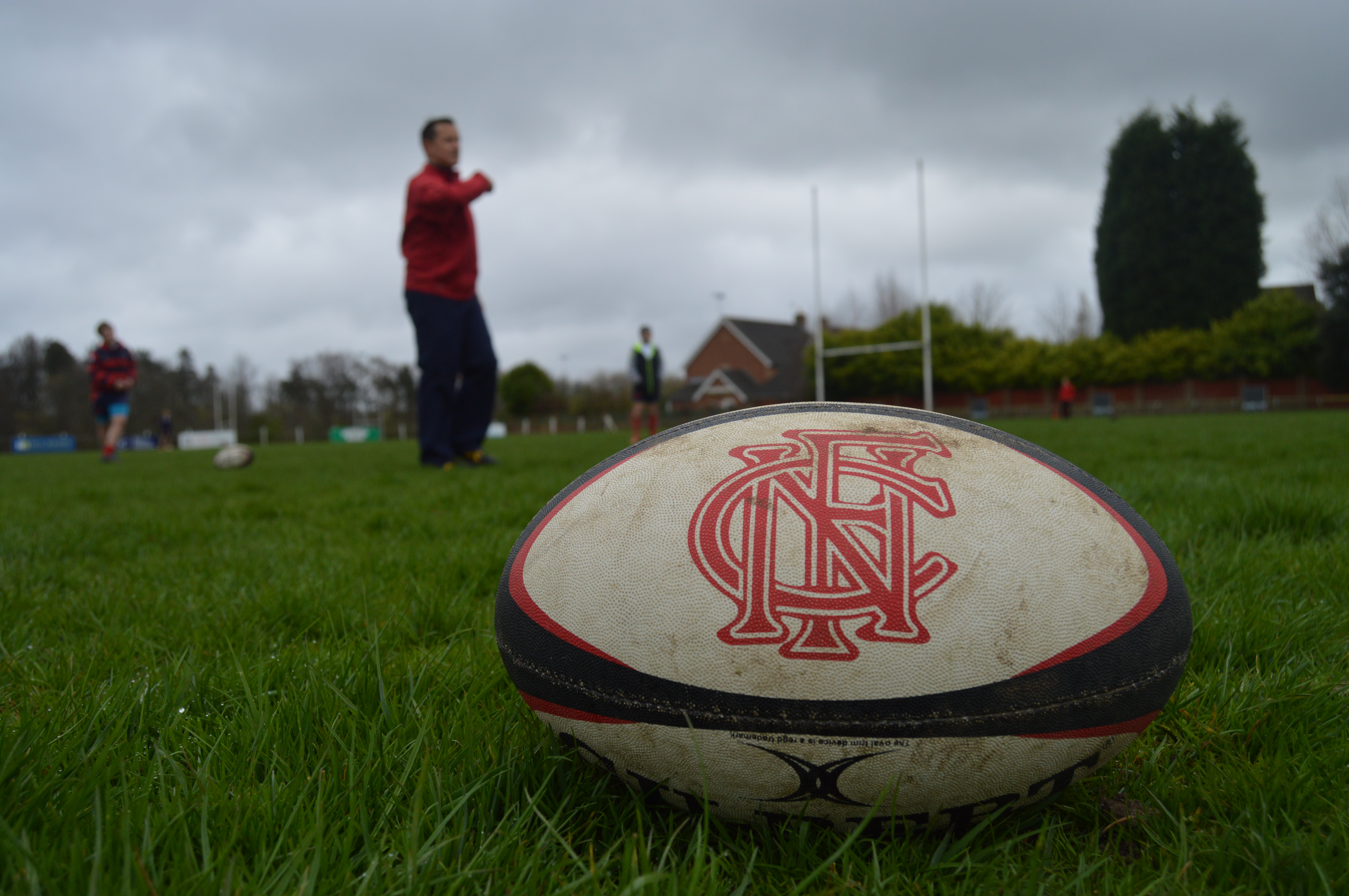 Rugby ball with Northern FC crest on